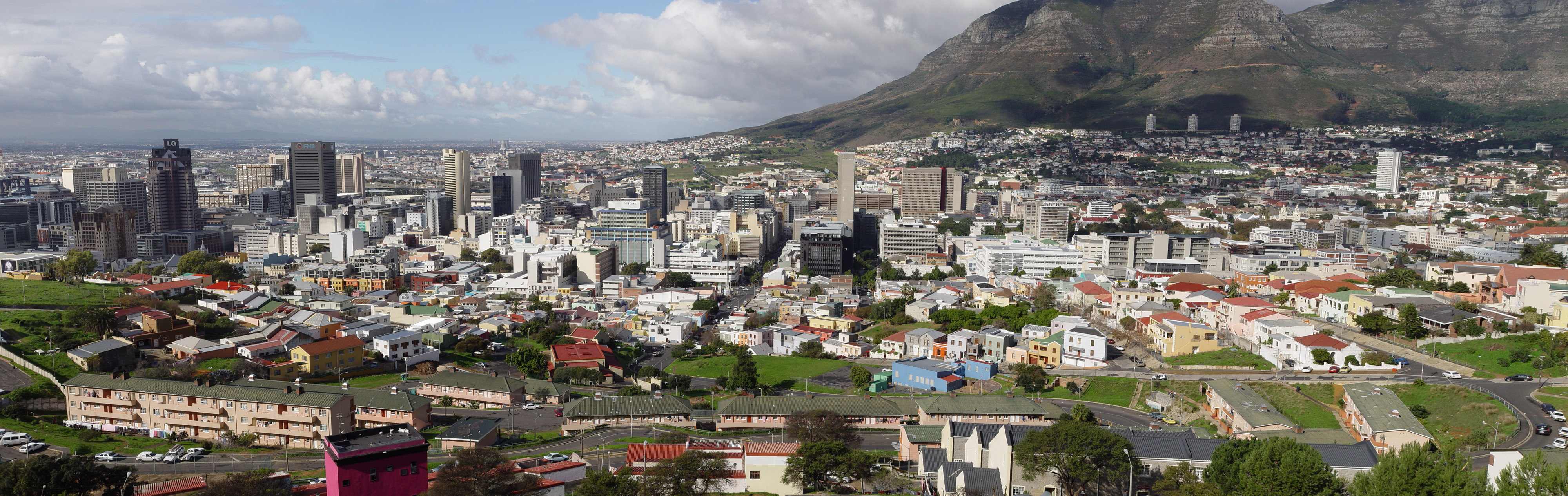 Panorama of the Cape Town City Centre